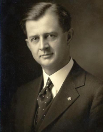 "Arthur H. Estabrook, a researcher for the Eugenics Record Office at the Carnegie Institution, is the subject of this studio portrait made in 1921. During a court case in Amherst County in 1924–1925, Estabrook served as an expert witness in favor of the forced sterilization of Carrie E. Buck by the state because she was deemed feebleminded and promiscuous. Estabrook was president of the Eugenics Research Association from 1925 until 1926."